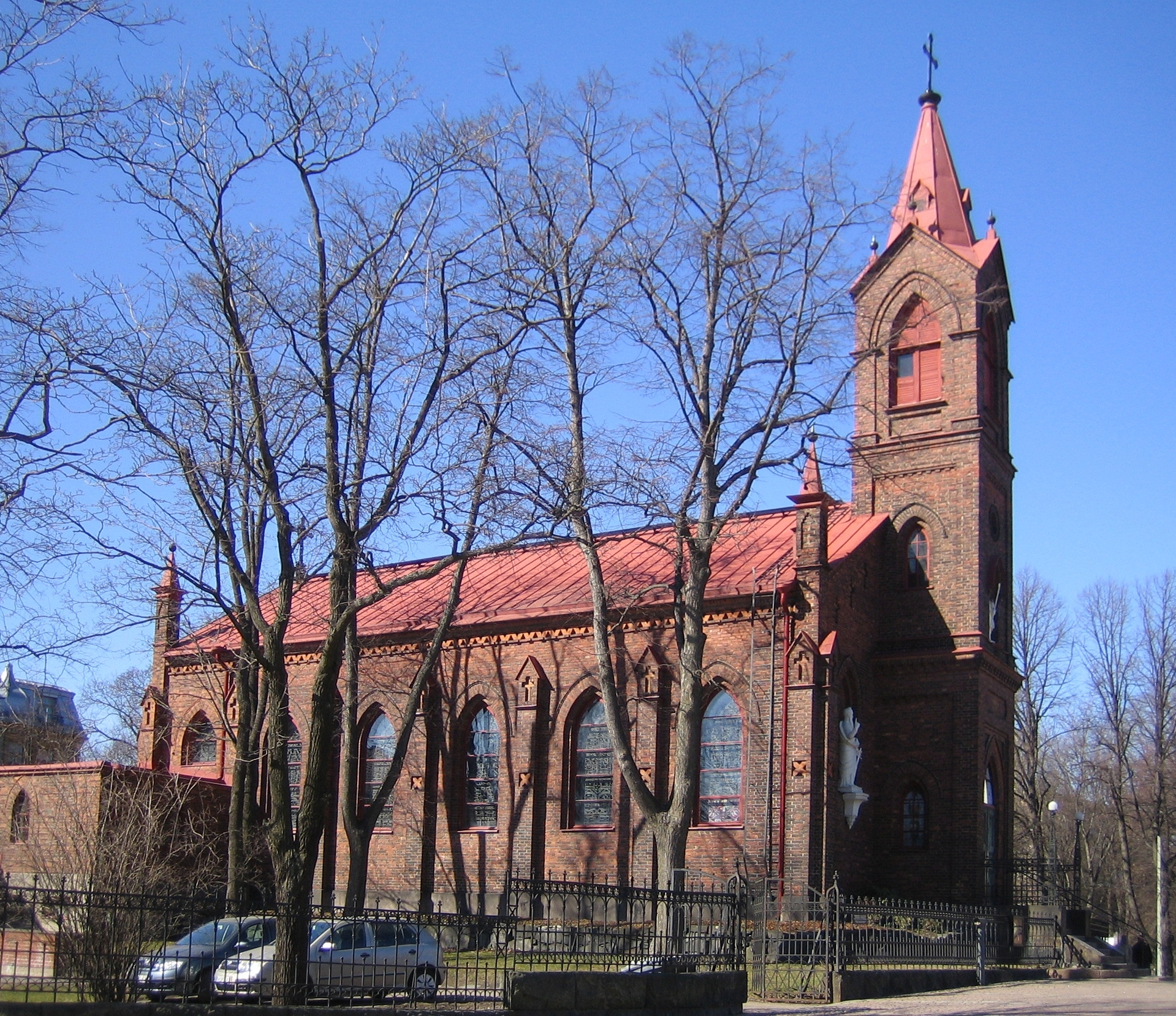 Saint Henry's Cathedral (Catholic), Helsinki, Finland.